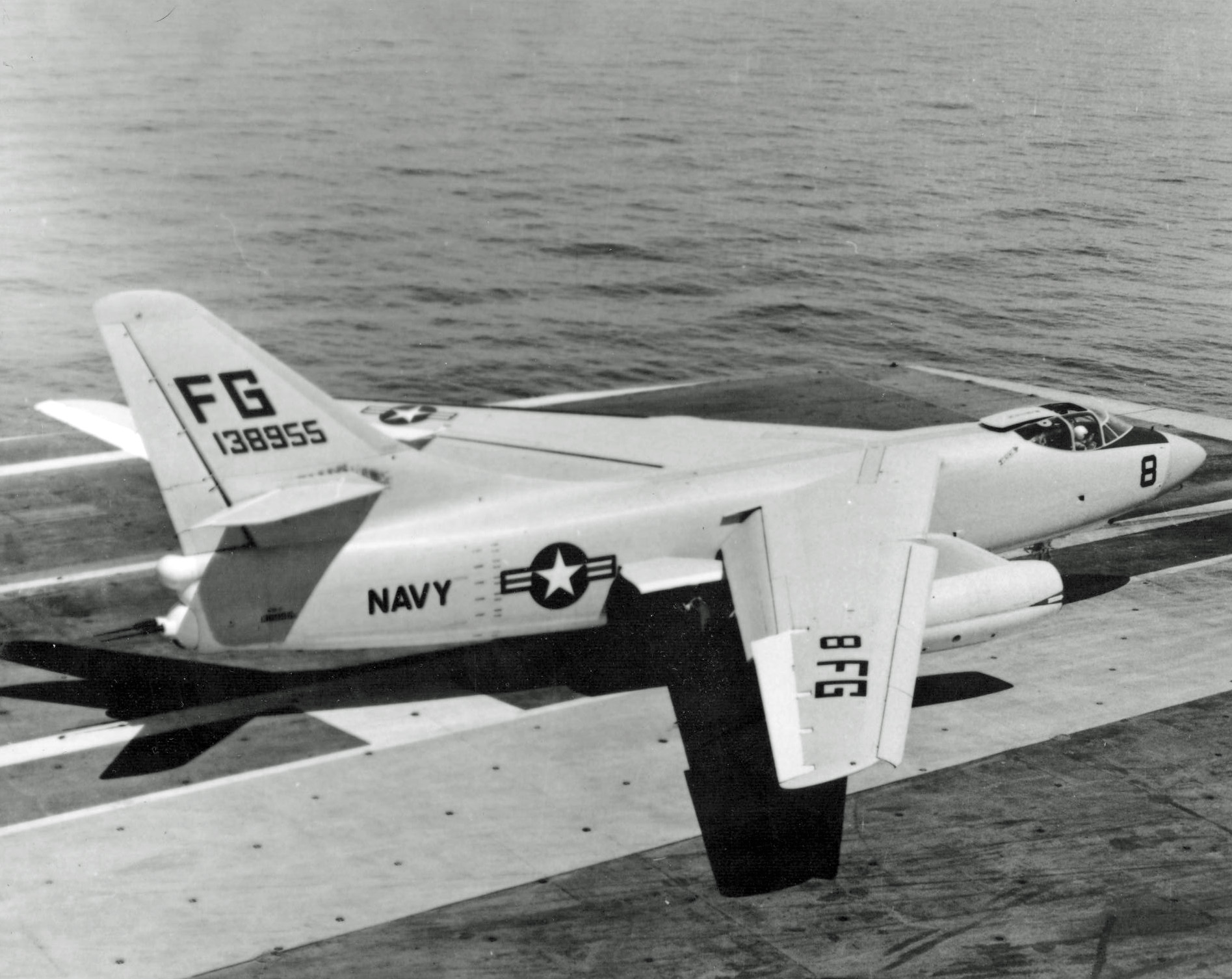 A U.S. Navy Douglas A3D-2 Skywarrior (BuNo 138955) of heavy attack squadron VAH-9 Hoot Owls (tail code FG) pictured on the flight deck of the aircraft carrier USS Saratoga (CVA-60), 1957.